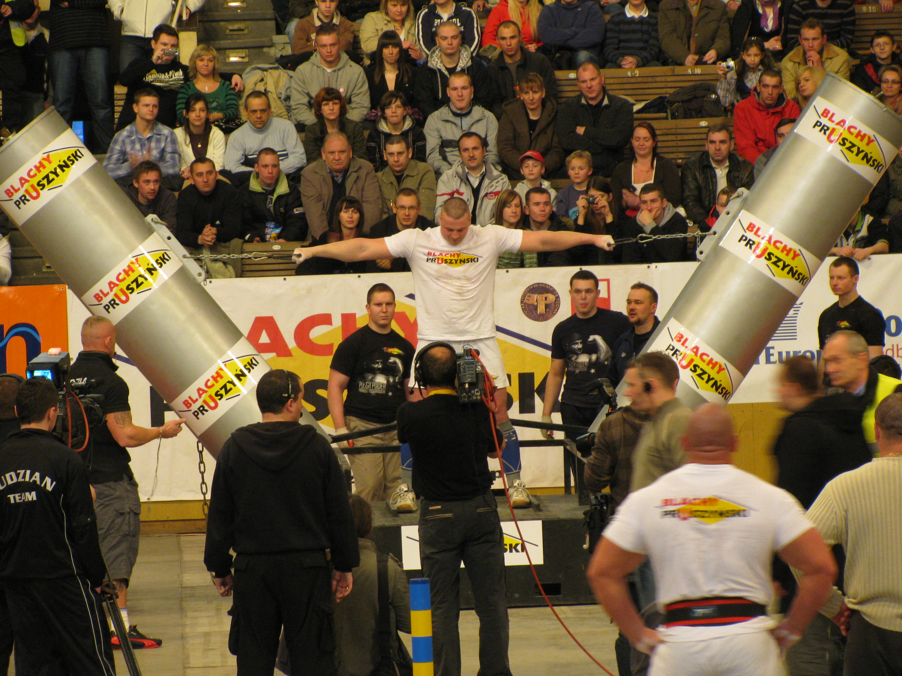 Strongman exercise: Hercules hold